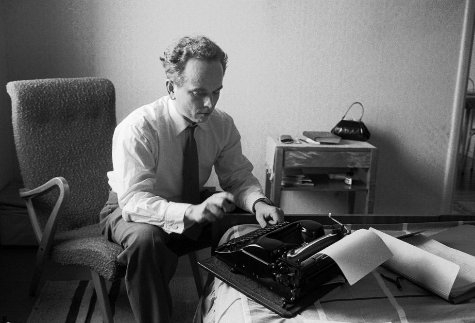 Photograph of the Finnish writer Veijo Meri (1928–2015).